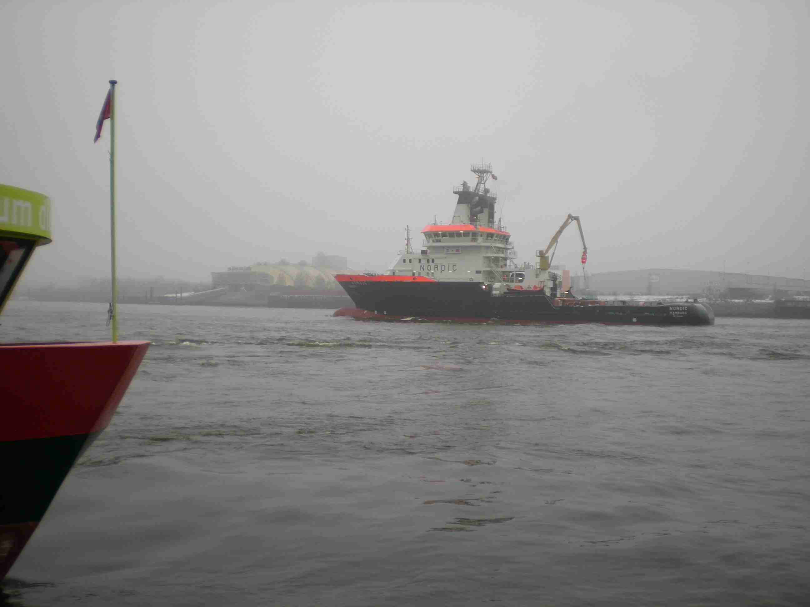 Ocean tugboat "Nordic" in the port of Hamburg